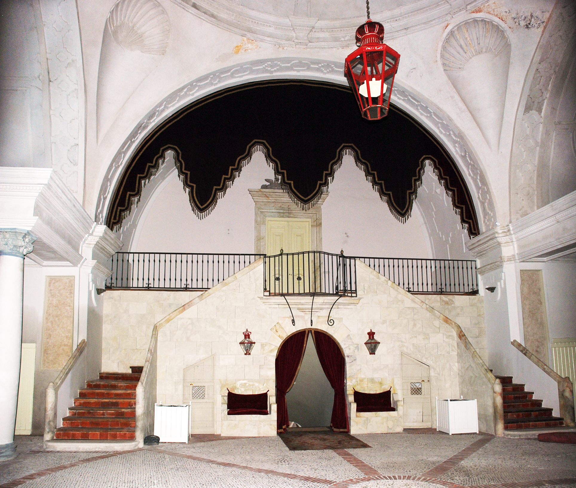 Interior of the Palace of the counts of Fontanar in Baltanás (Palencia, Castile and León).